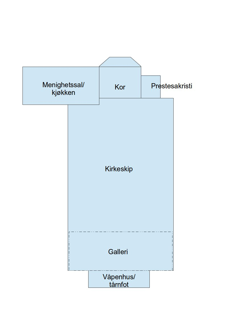 Scetch of Manger church, Norway